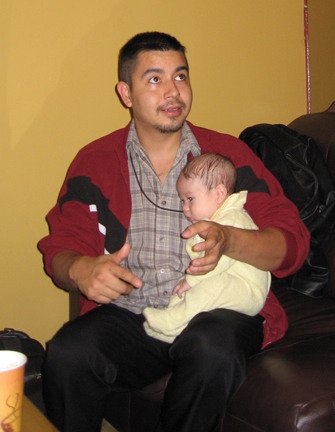 Ed Pigeon and son (Match-E-Be-Nash-She-Wish Band of Pottawatomi), cultural coordinator, language instructor, and tribal vice-chairman, Michigan